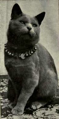 MRS. CAREW COX'S BLUE MALE "BAYARD."